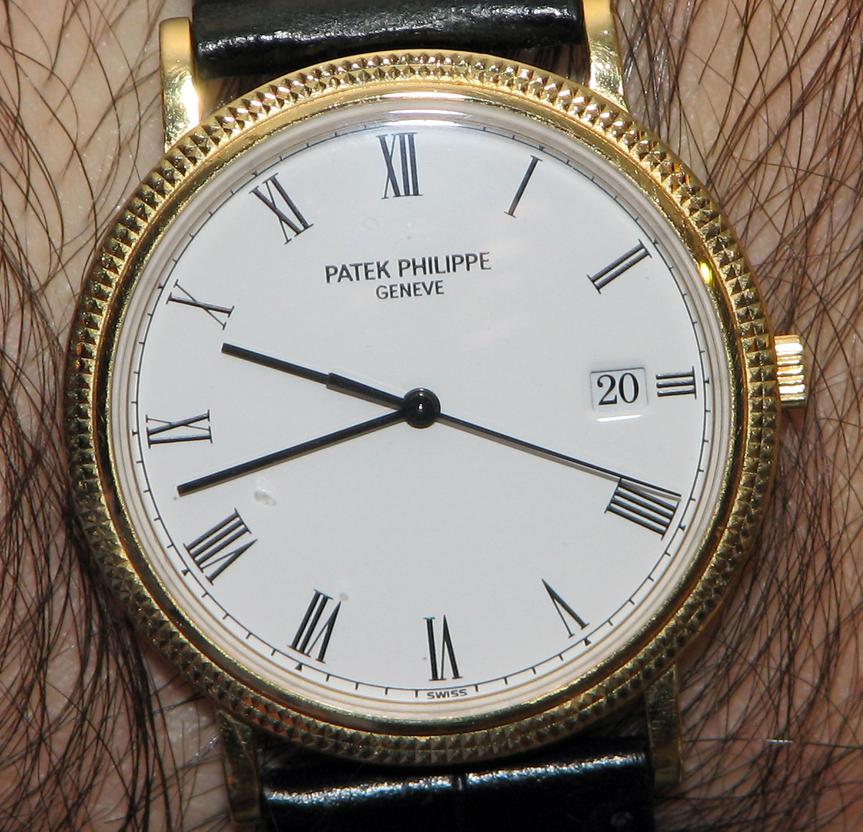 A circa 1999 men's quartz Calatrava, a dress watch built by the premier Swiss watchmaker Patek Philippe. It is in yellow gold, with a seconds hand and date